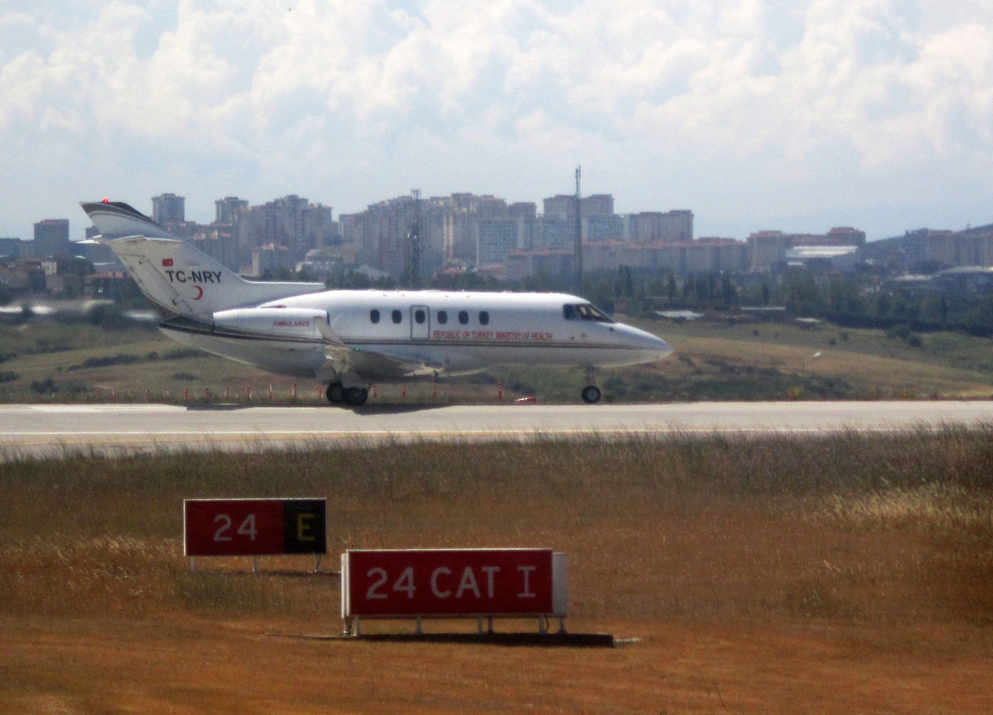 Hawker 900XP of Ministry of Health, on a CAT I runway at Sabiha Gökçen International Airport